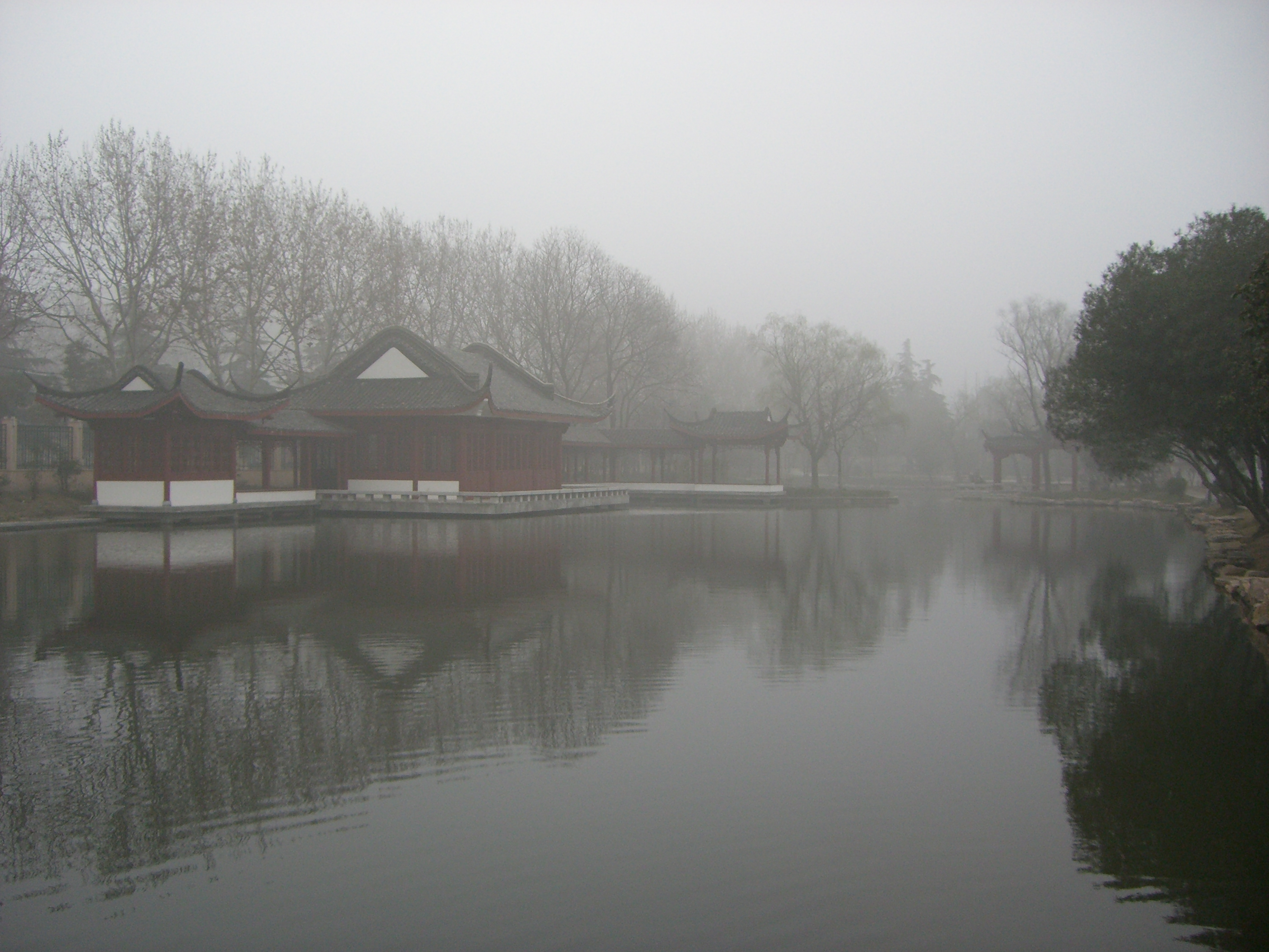 Foggy View of the Park around XiangFang. Google Map Location